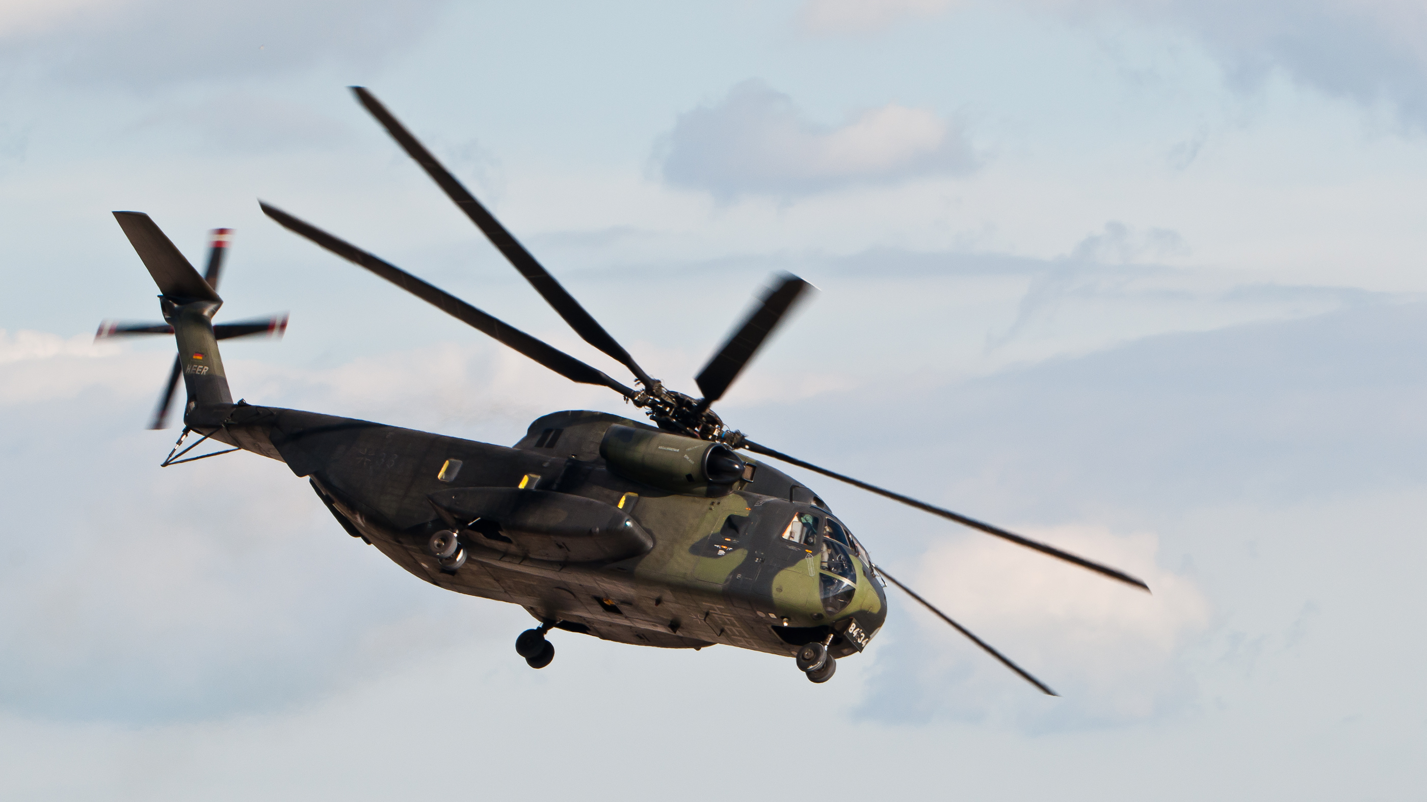 CH-53 (reg. 84+34) of the German Army at ILA Berlin Air Show 2012.